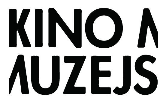 Rīgas Kino muzeja logo